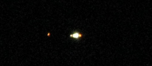 A padiddle